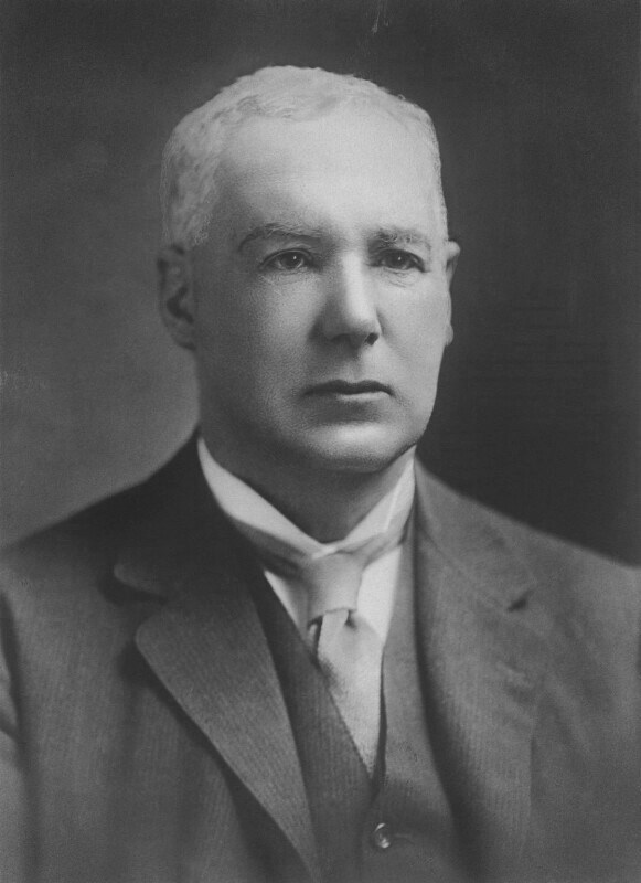 Sir Francis Henry Dillon Bell, ca 1924 Photograph from New Zealand Free Lance Reference Number: PAColl-5469-012 Original print Photographic Archive, Alexander Turnbull Library Find out more about this photograph on our Manuscripts + Pictorial website 20th Prime Minister of New Zealand, in office 1925